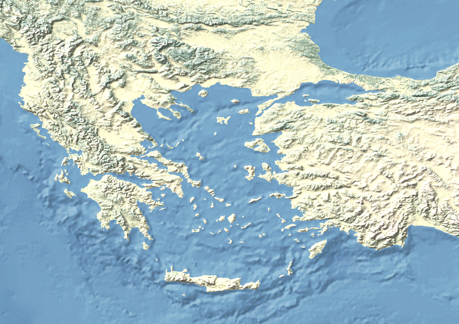 Agean Sea map geographical